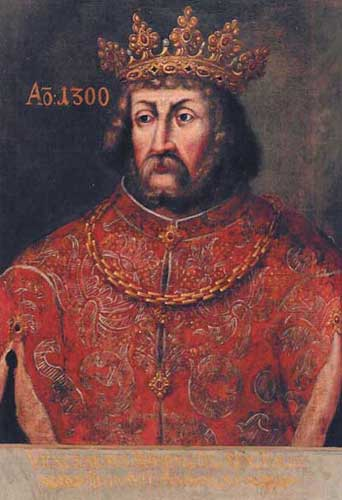 Wenceslaus II of Poland and Bohemia